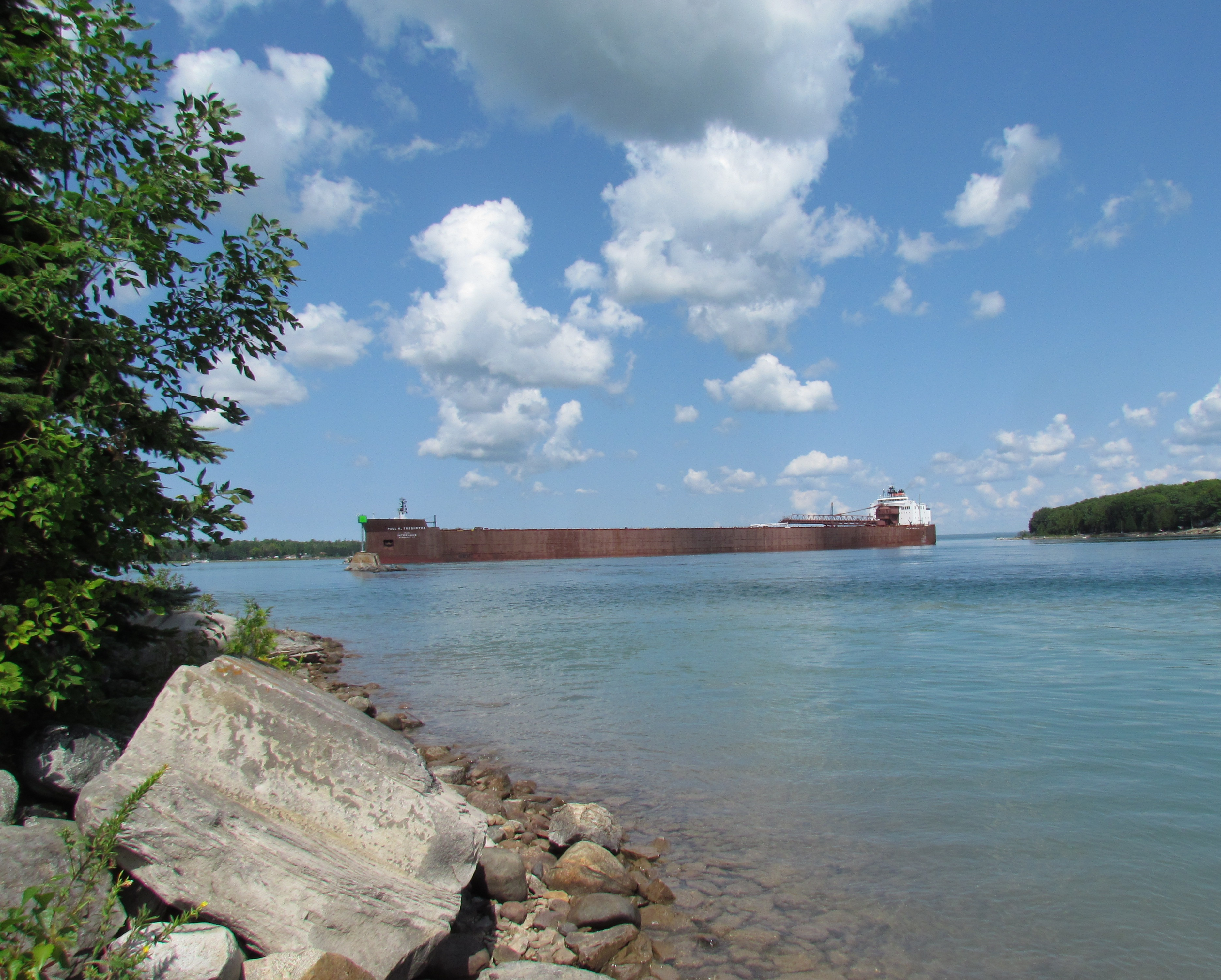 SAULT SAINTE MARIE, Mich. - Around 3 a.m. on Wednesday morning the bow of the Paul R. Tregurtha grounded on the edge of the navigation channel and her stern pivoted and grounded on the opposite side of the channel, completely blocking the approach to the Rock Cut in the Lower St. Marys River. (U.S. Army Corps of Engineers photo by Michelle Hill)